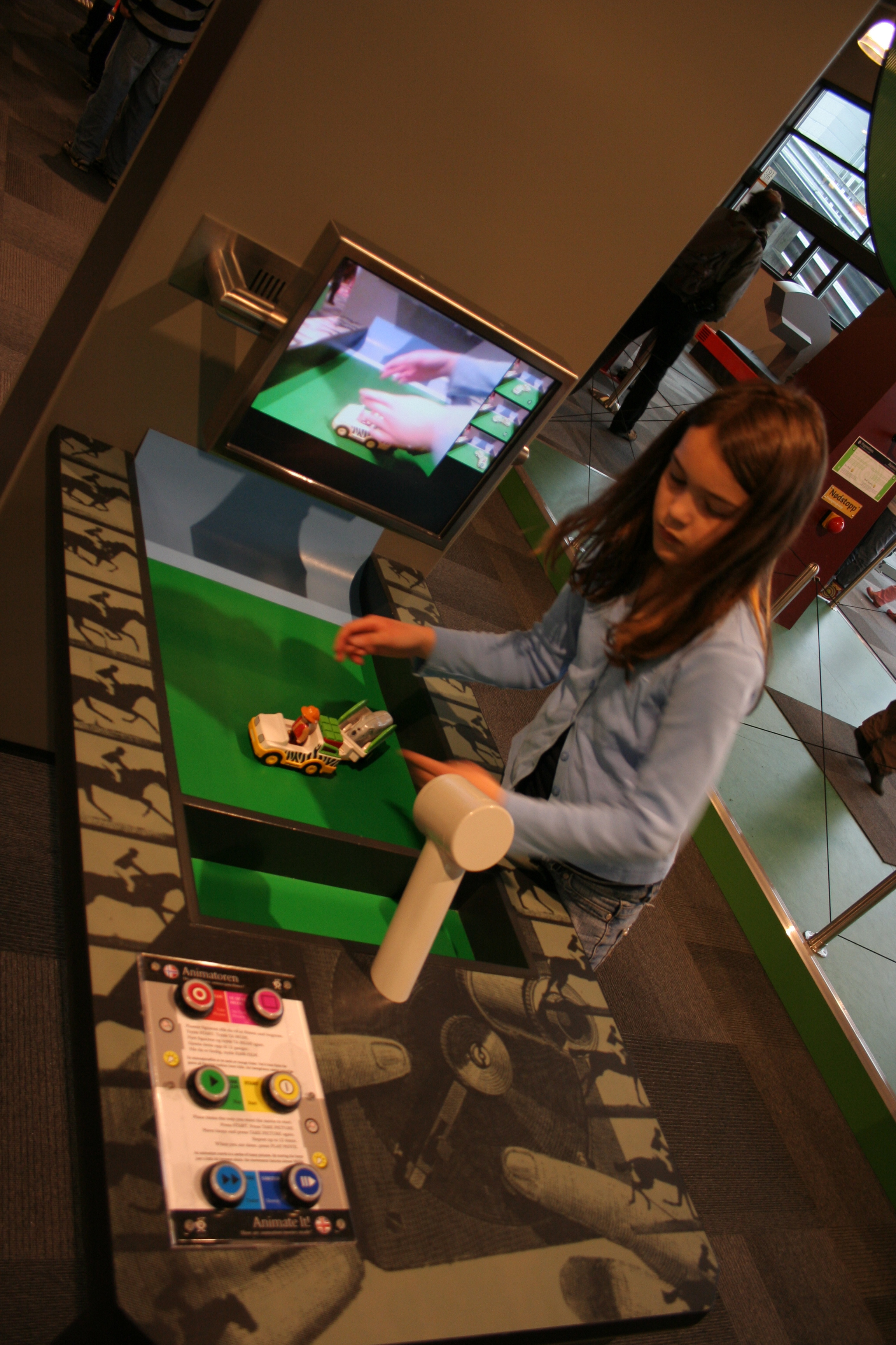 Creating a stop motion picture, Bergen Science Centre